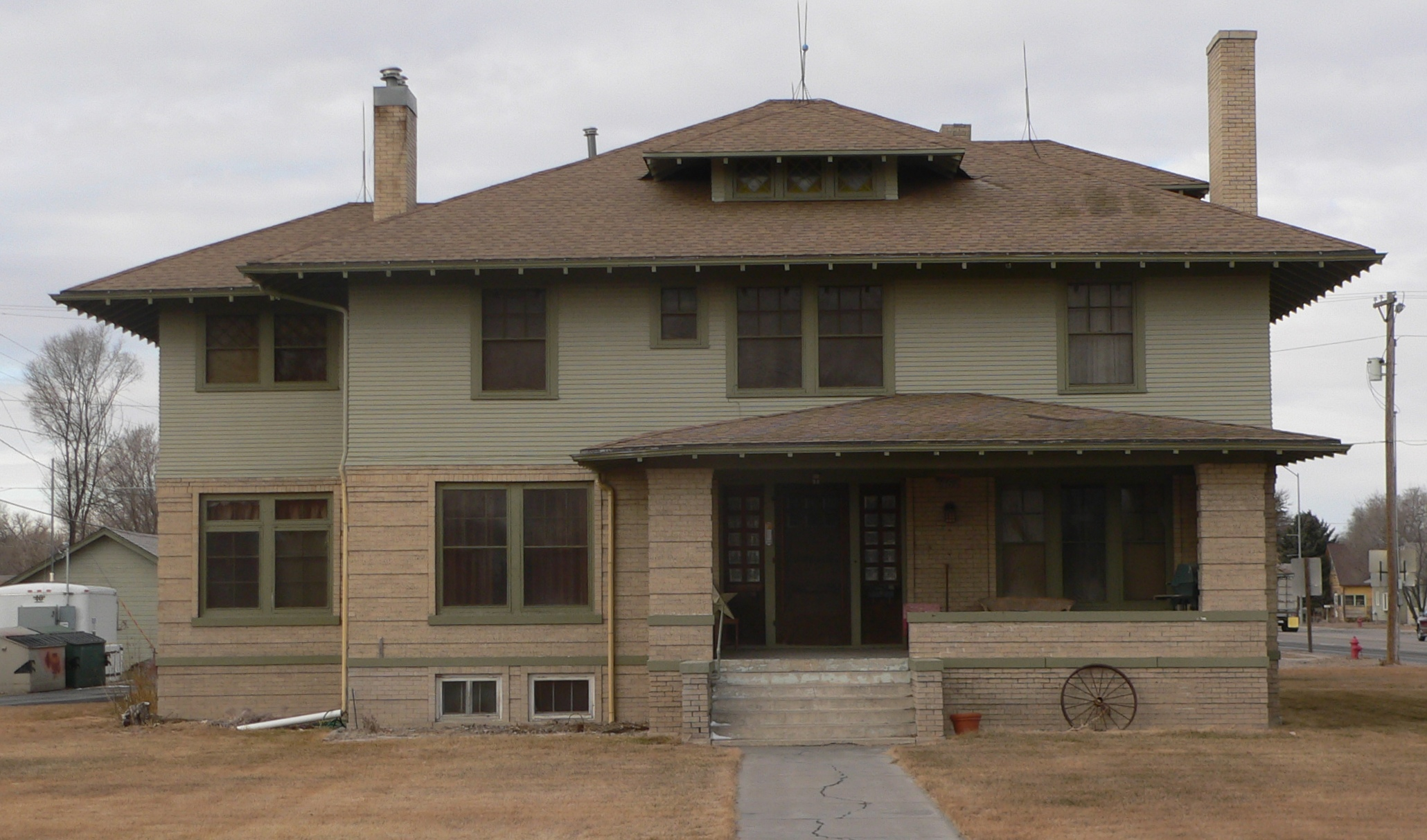 Quivey house, located at 1462 19th Avenue in Mitchell, Nebraska; seen from the east.